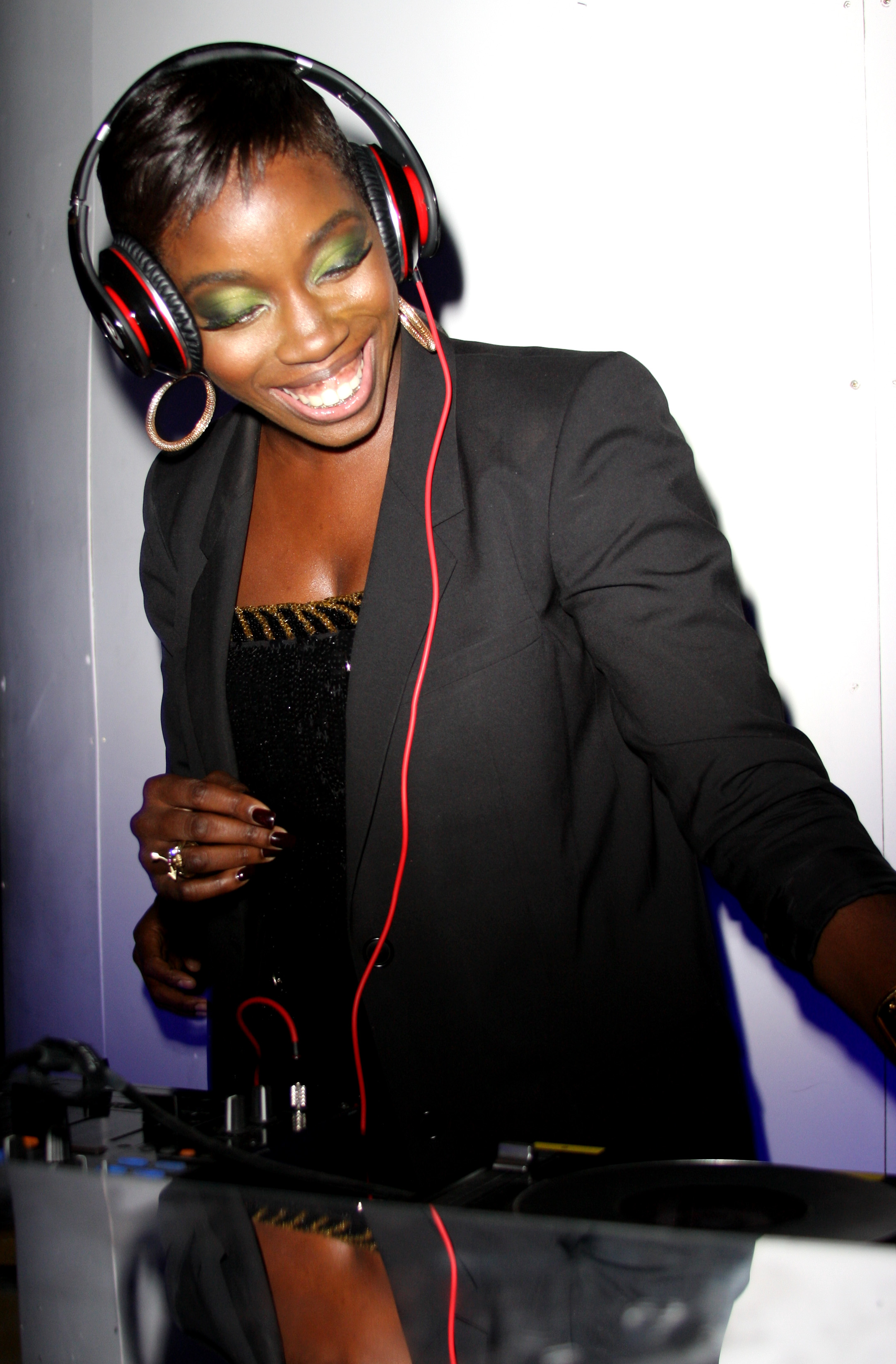 Estelle Swaray on the decks